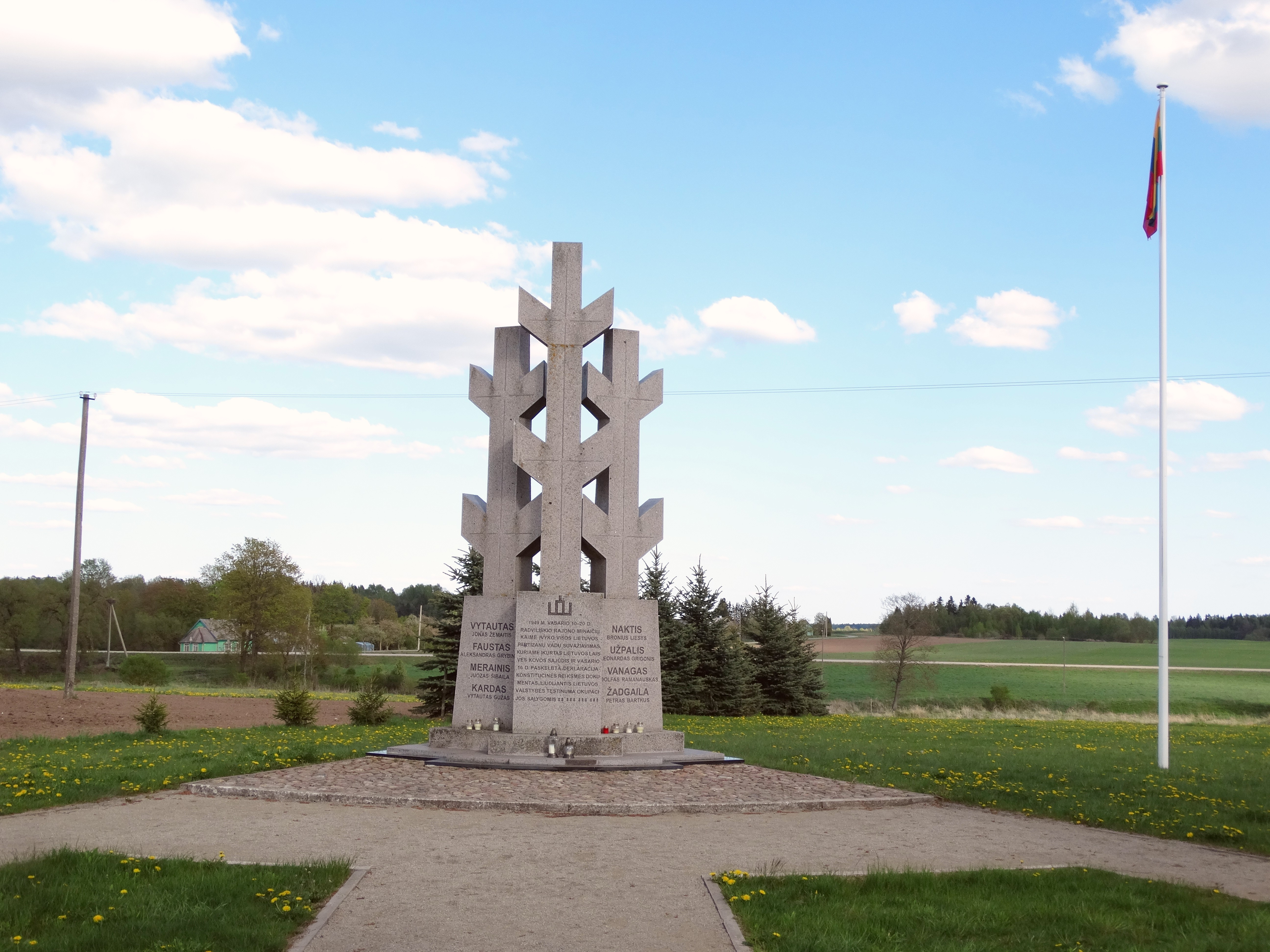 Minaičiai, monument to Union of Lithuanian Freedom Fighters, Radviliškis district, Lithuania